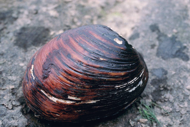 Pink mucket mussel (Lampsilis abrupta), Ohio River Photo by: Craig Stihler/USFWS